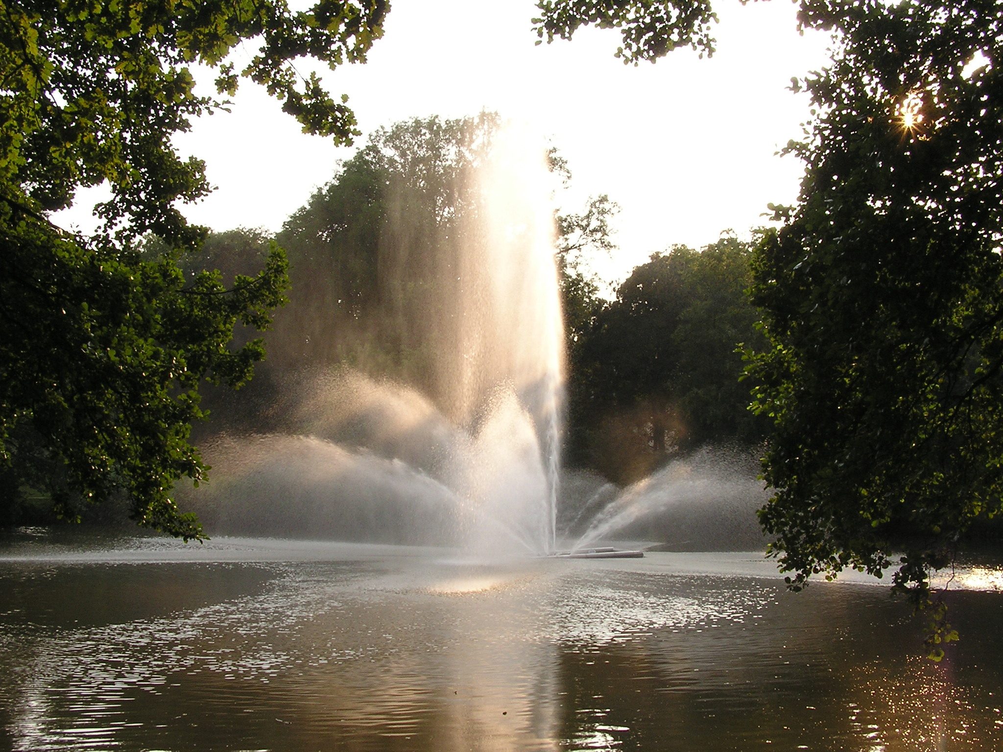 The fountain in the Kurpark Bad Homburg